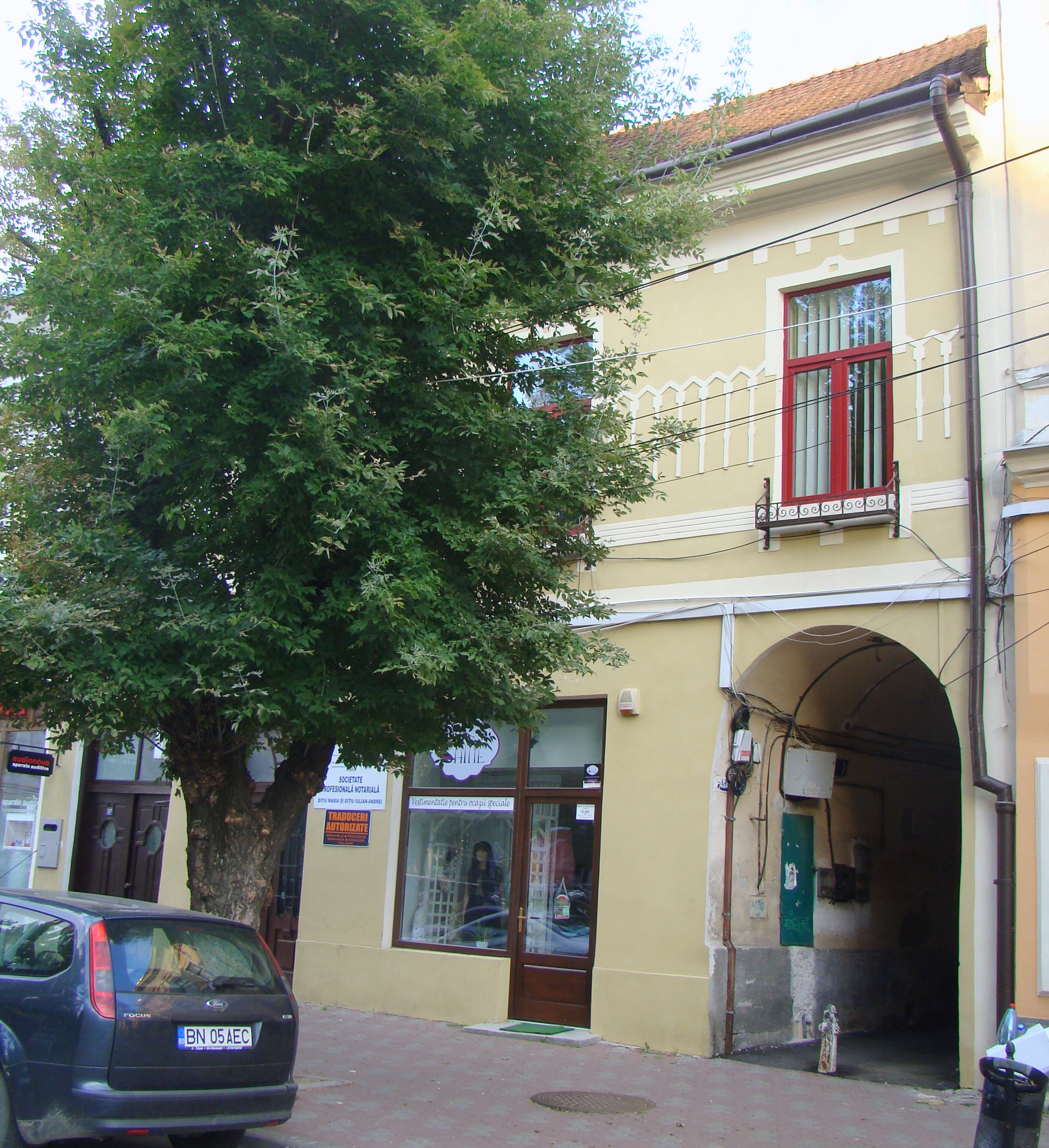 House, historic monument, in Bistrița, Piața Centrală 38